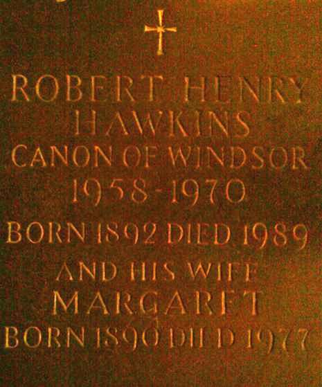 Memorial stone to Canon Robert Henry Hawkins in St. George's Chapel, Windsor Castle